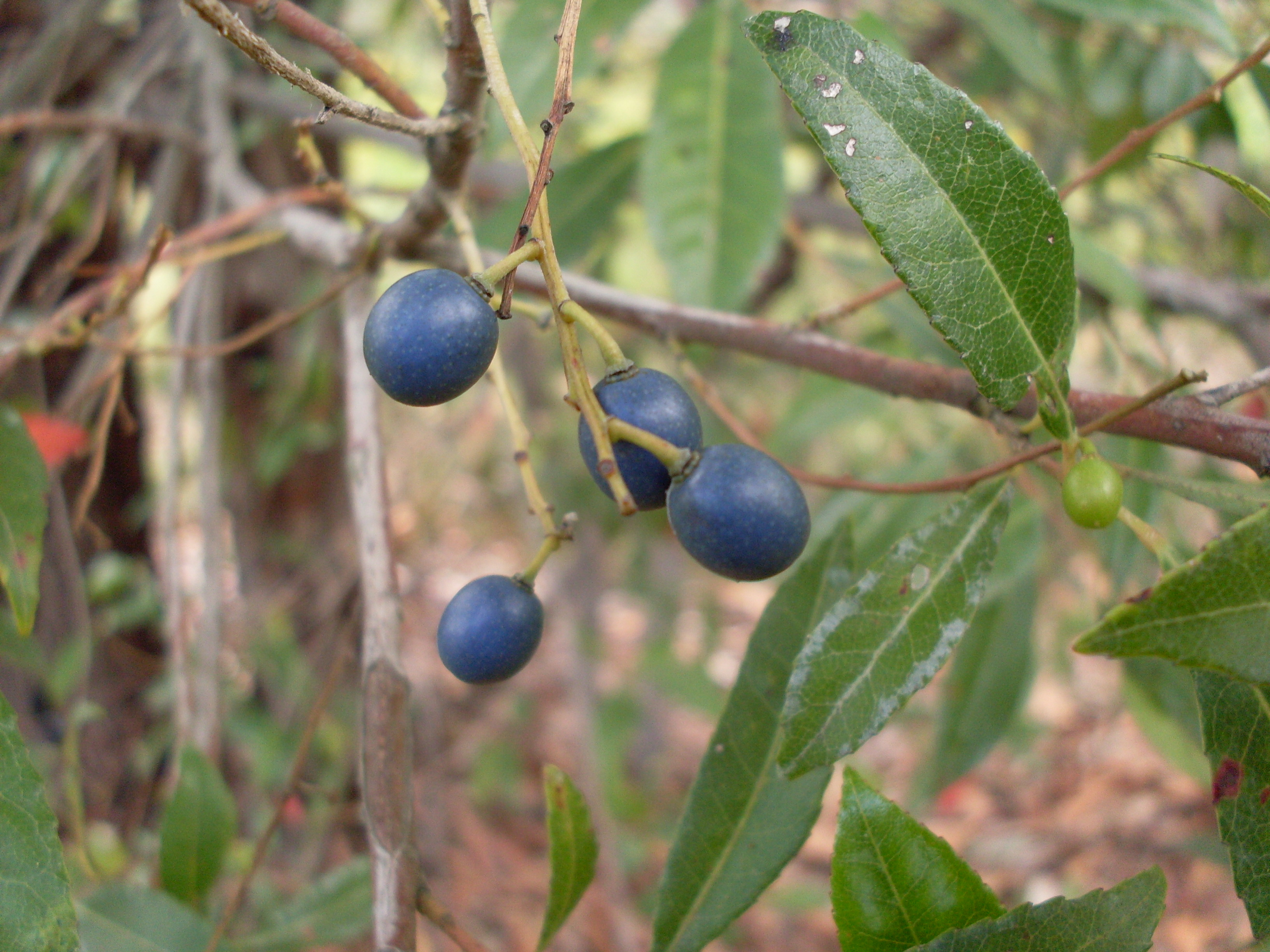 The berries of the Blueberry ash (Elaeocarpus reticulatus) are not really edible, though they look pretty good. Jannali NSW Australia, December 2008.